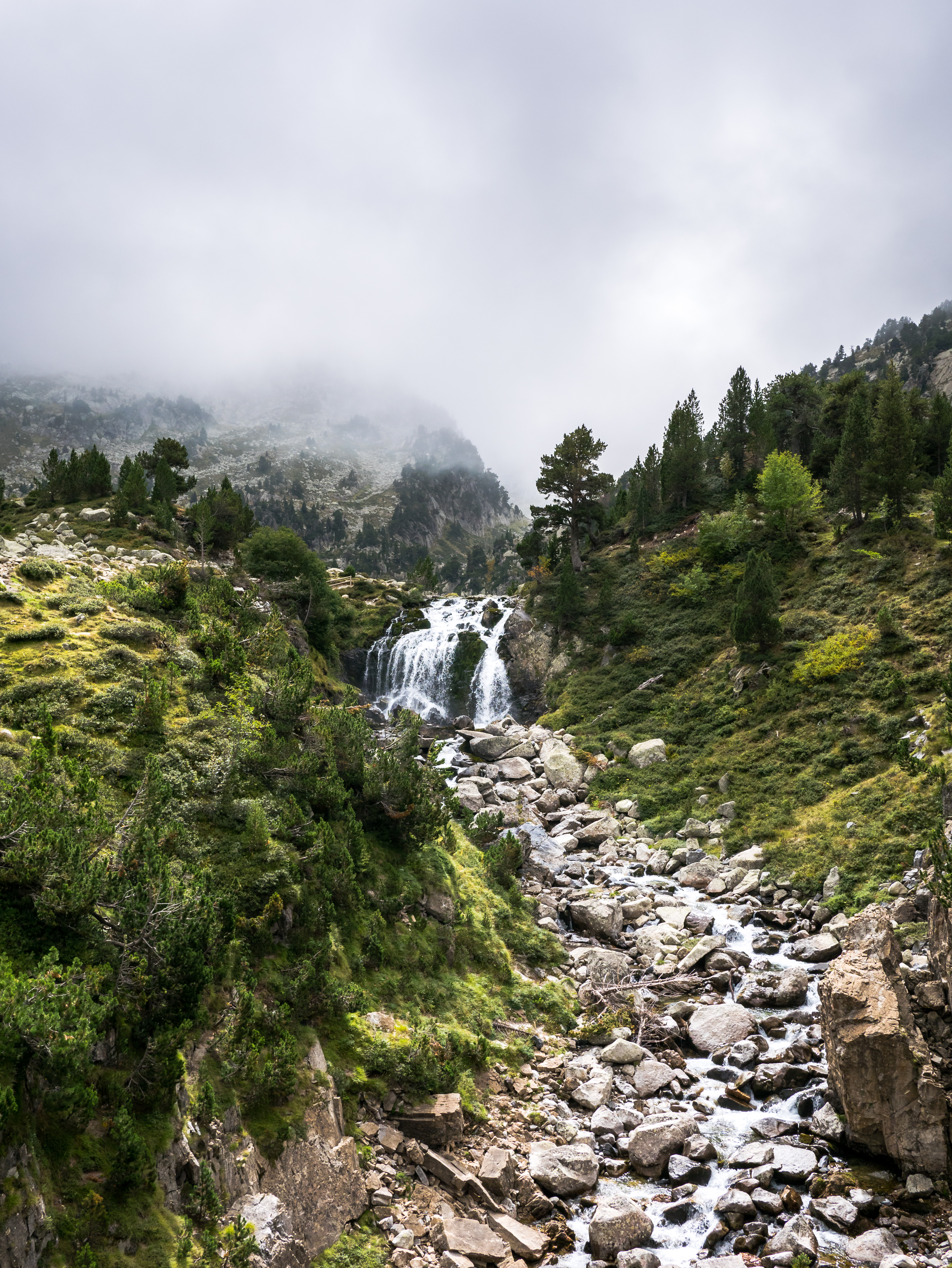 Forau de Aigualluts, waterfall. Huesca, Aragon, Spain